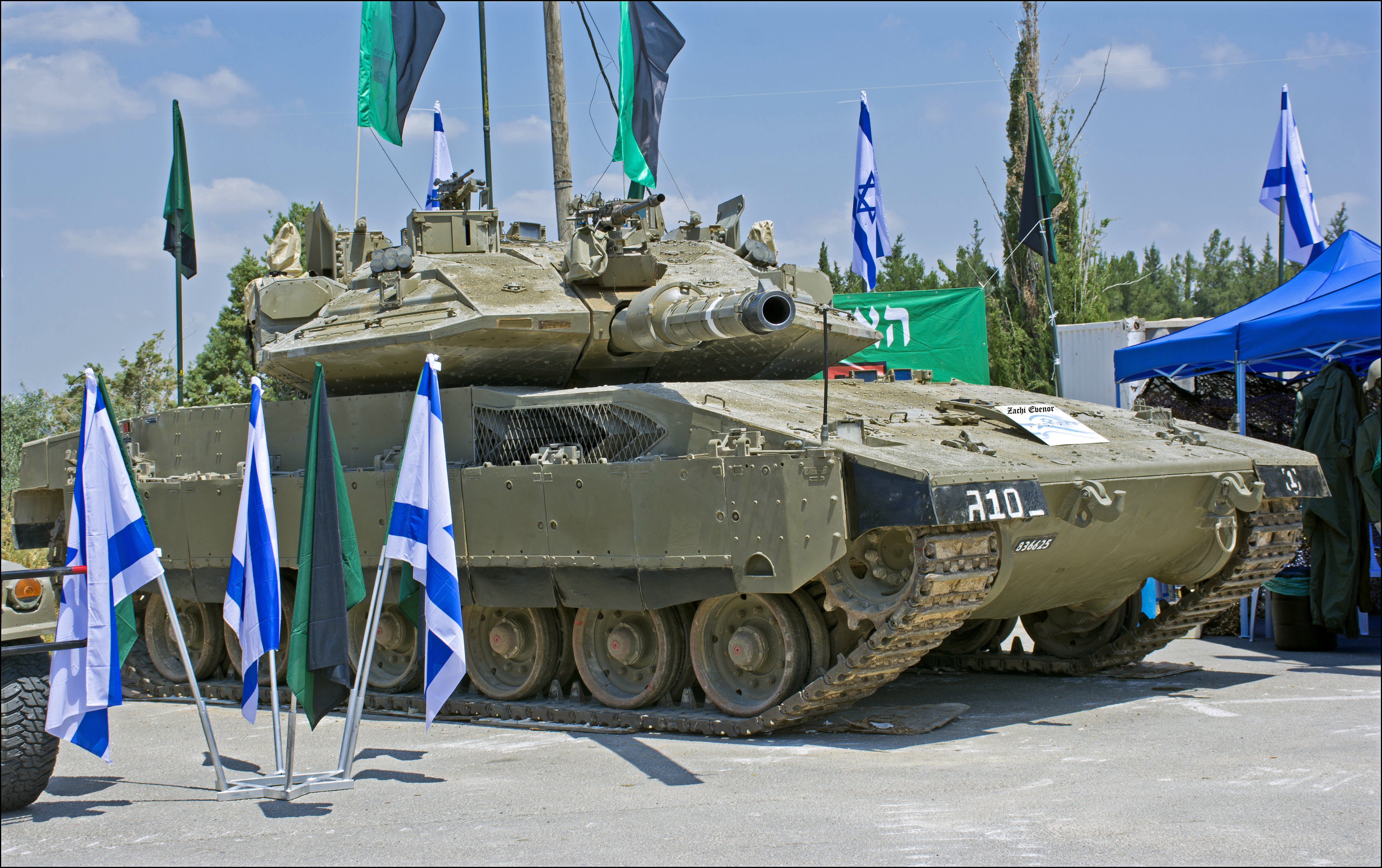 Merkava Mk 4M with Windbreaker (Trophy APS). Israel 68th Independence Day, Ground Army Exhibition, Yad LaShiryon, Israel